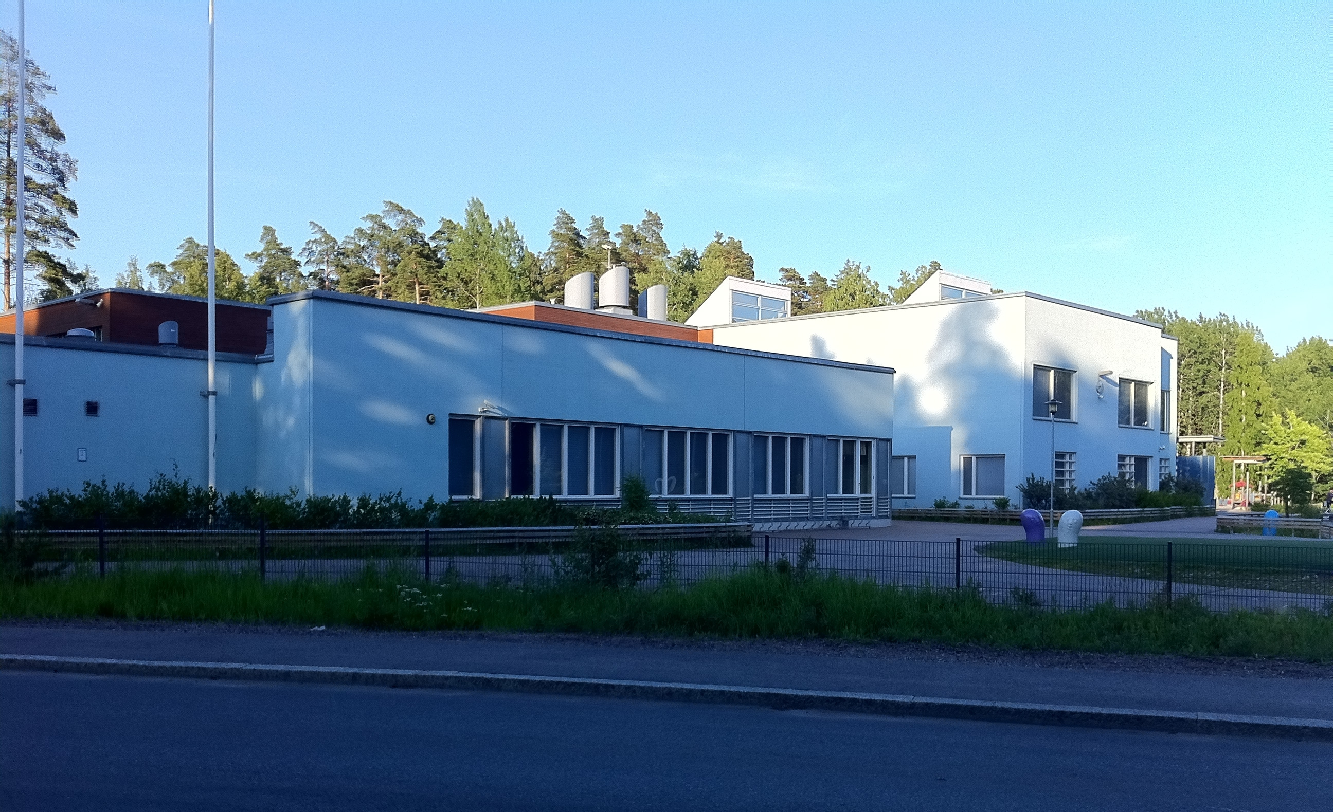 Poikkilaakso School, Jollas, Helsinki